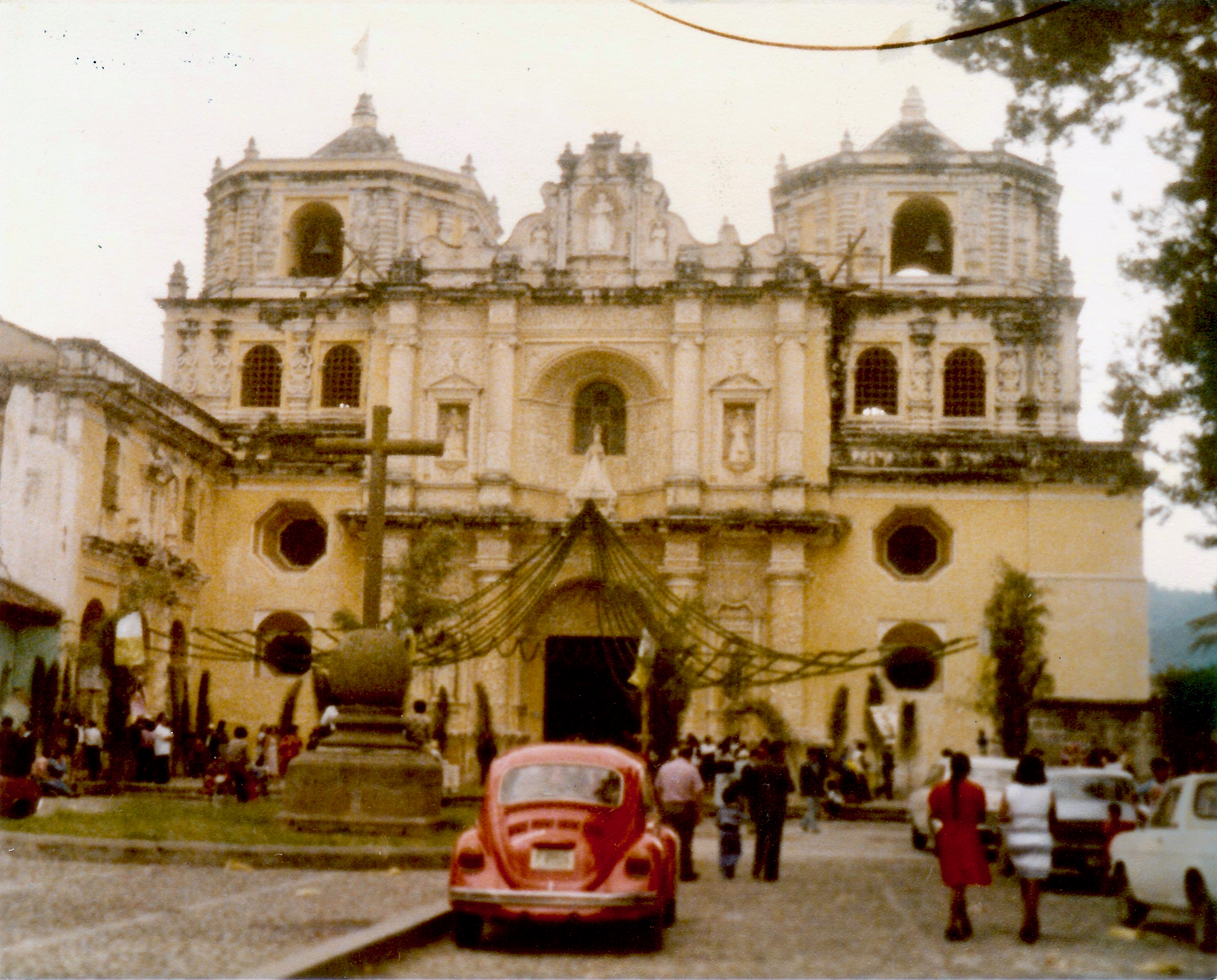 front fascade of Church of La Merced, Antigua Guatemala, 1979